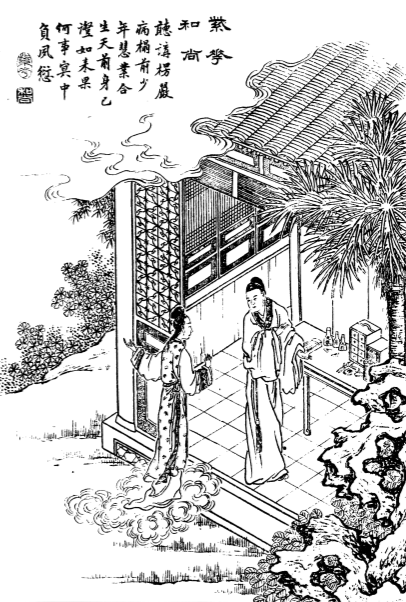 19th-century illustration of a scene from the short story "The Purple Lotus Buddhist" collected in Strange Tales from a Chinese Studio (1740).